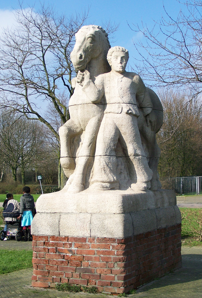 Statue "Man met paard en veulen" (Man with Horse and foal) by Willem van Kuilenburg. It was made in 1939 and placed in 1970 at the Cremerplein in Utrecht.